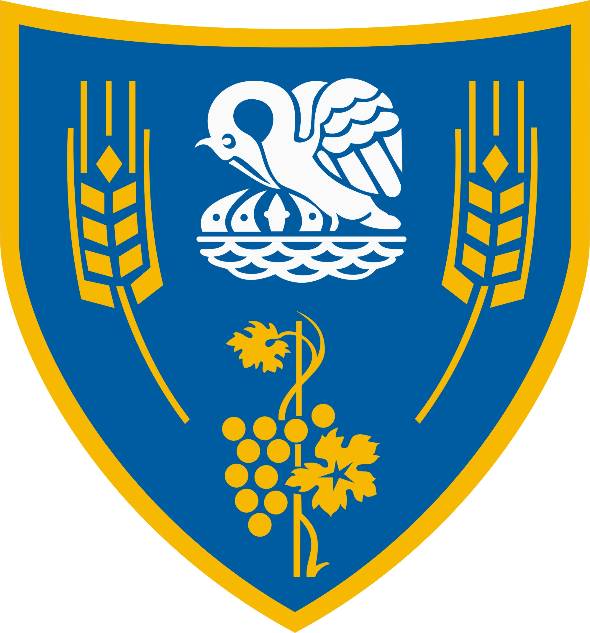 Coat of arms of Lápafő, Hungary